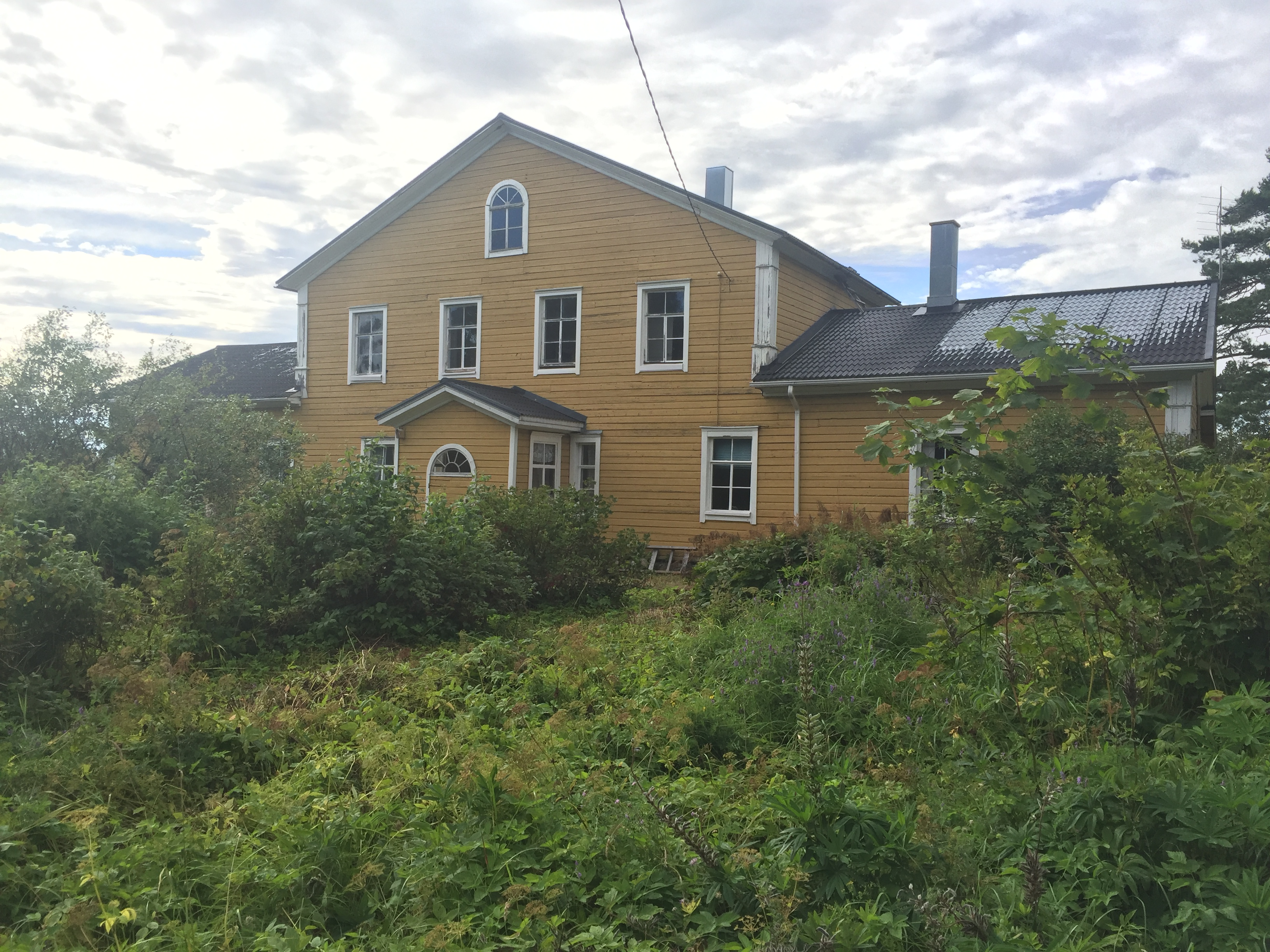 Ilohovi manor, until 1898 Fredenhov in Rantasalmi, Eastern Finland.